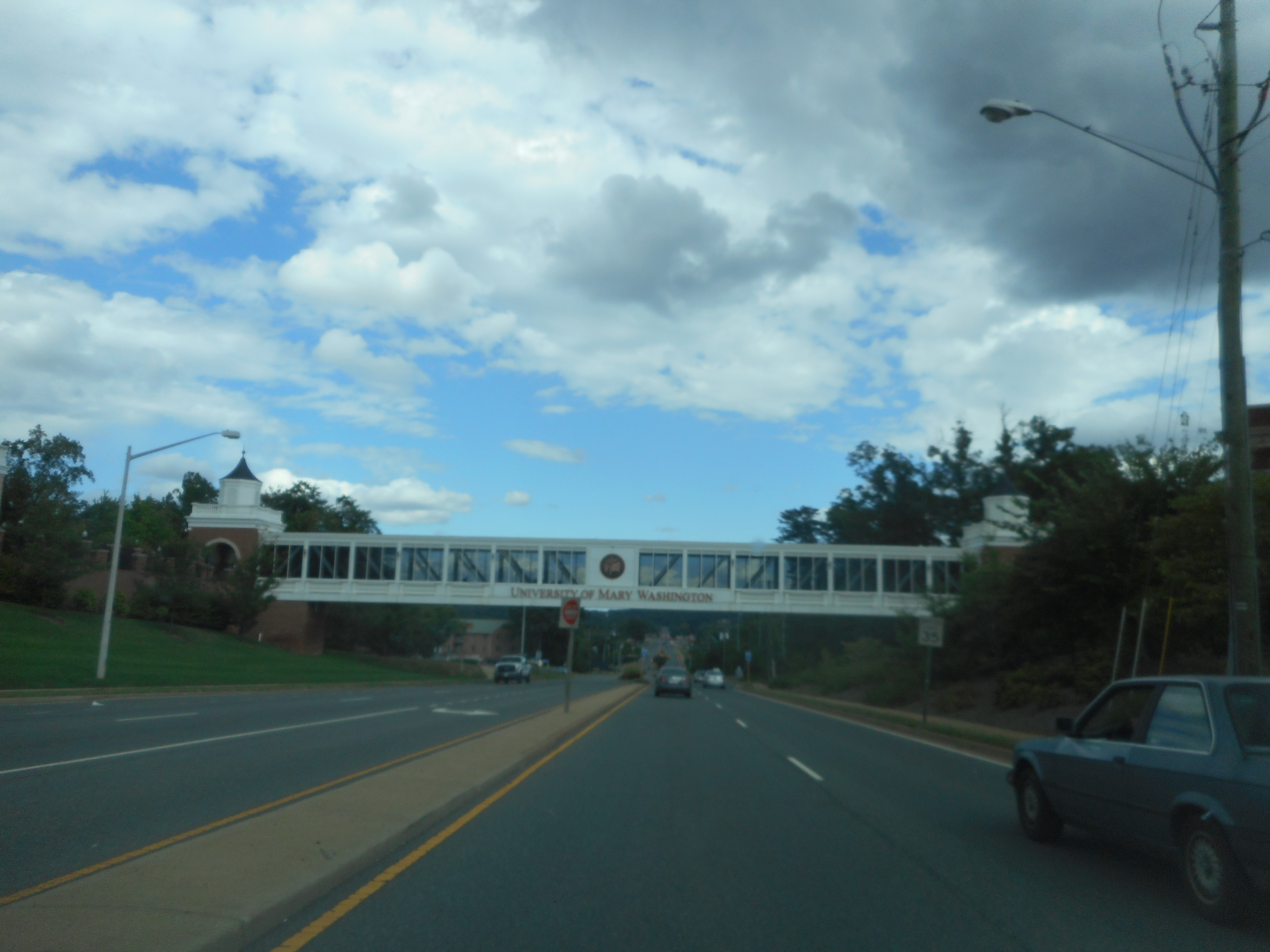 A pedestrian bridge over the US 1 hill at the University of Mary Washington in Fredericksburg, Virginia.